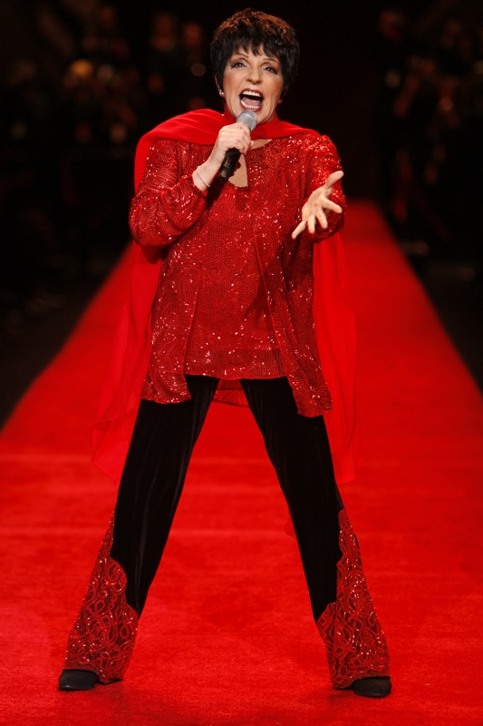 Liza Minnelli at The Heart Truth Fashion Show 2008